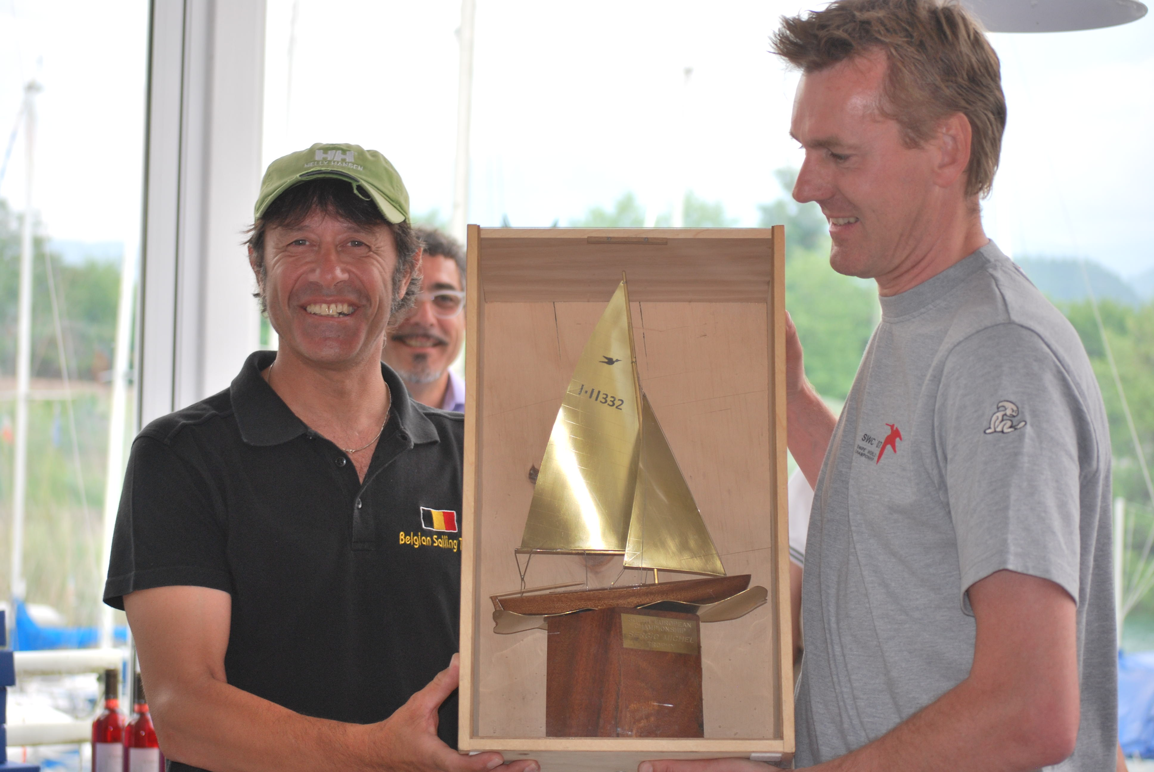 Manu Hens and Enrico Michel, snipe south european champions in 2012 holding the Sergio Michel Perpetual Trophy